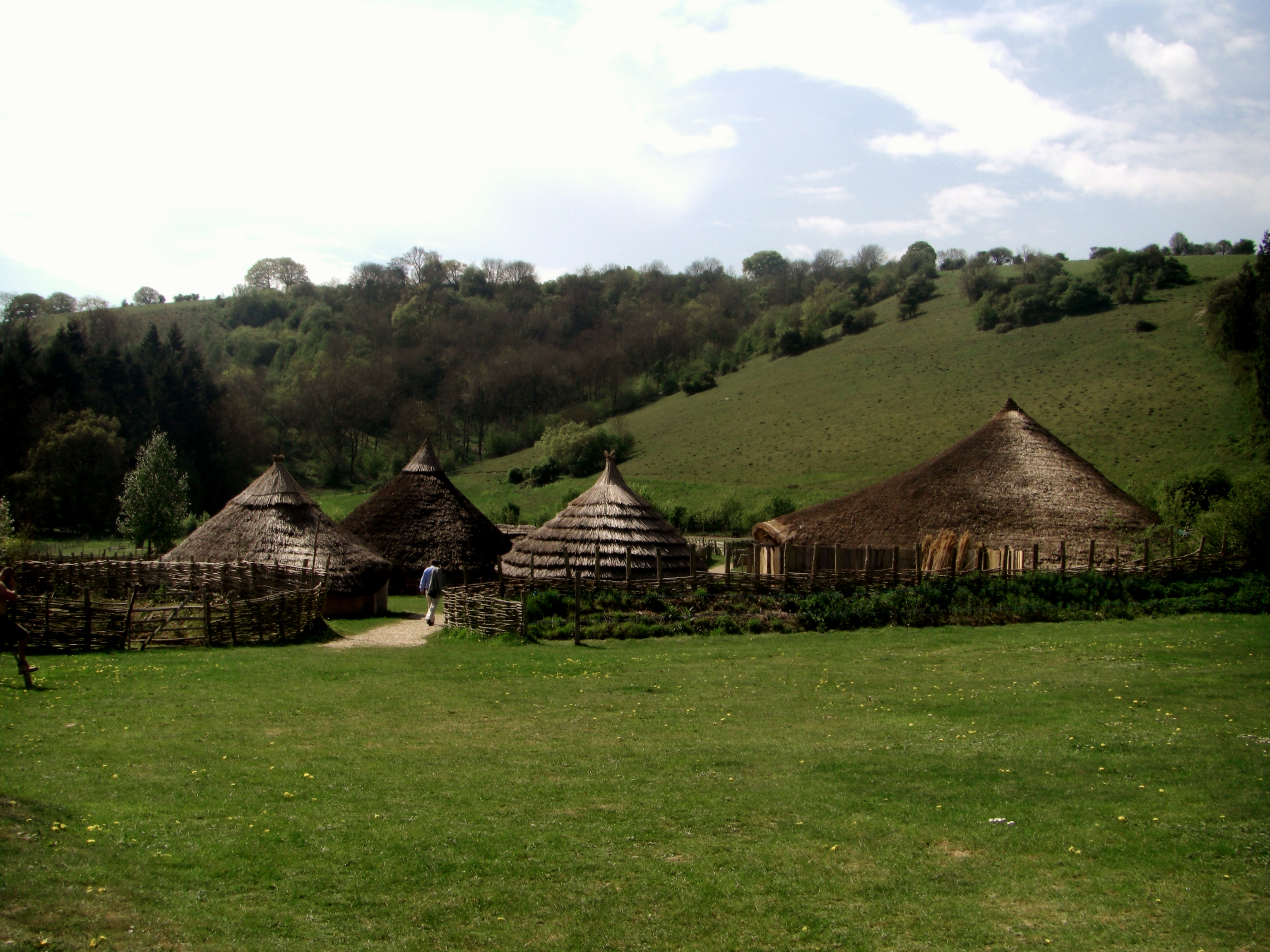 A view of Butser Ancient Farm in West Sussex, England.